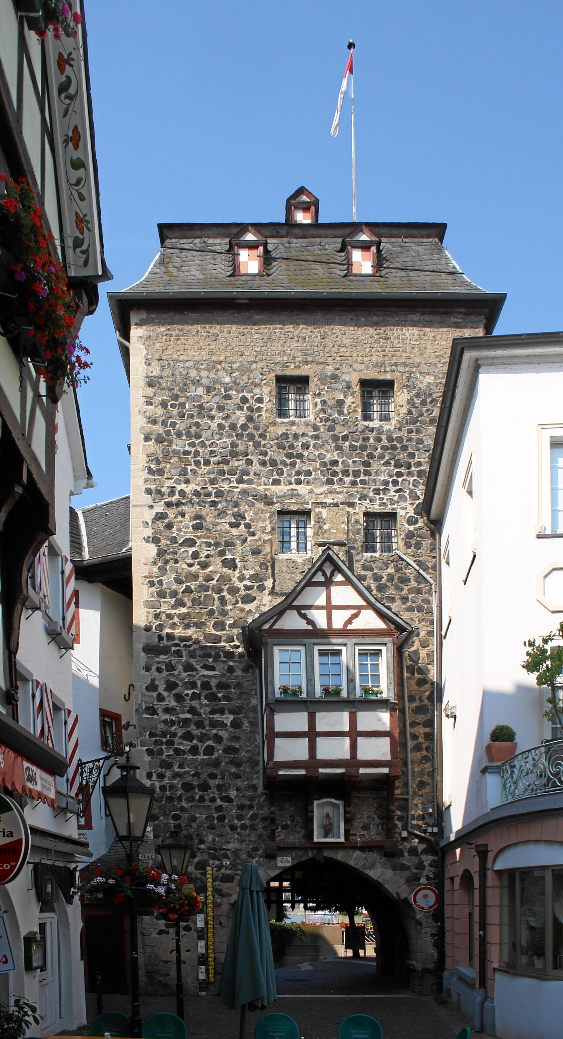 Linz am Rhein, Germany. Rheintor of the former city walls build in 1302-29, view from East.